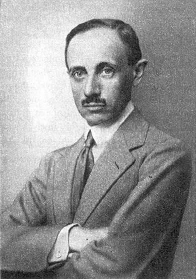 Hungarian Prime Minister Pal Teleki